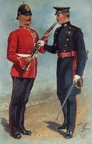 Illustration of men of The Duke of Wellington's Regiment between the 1880 and 1914